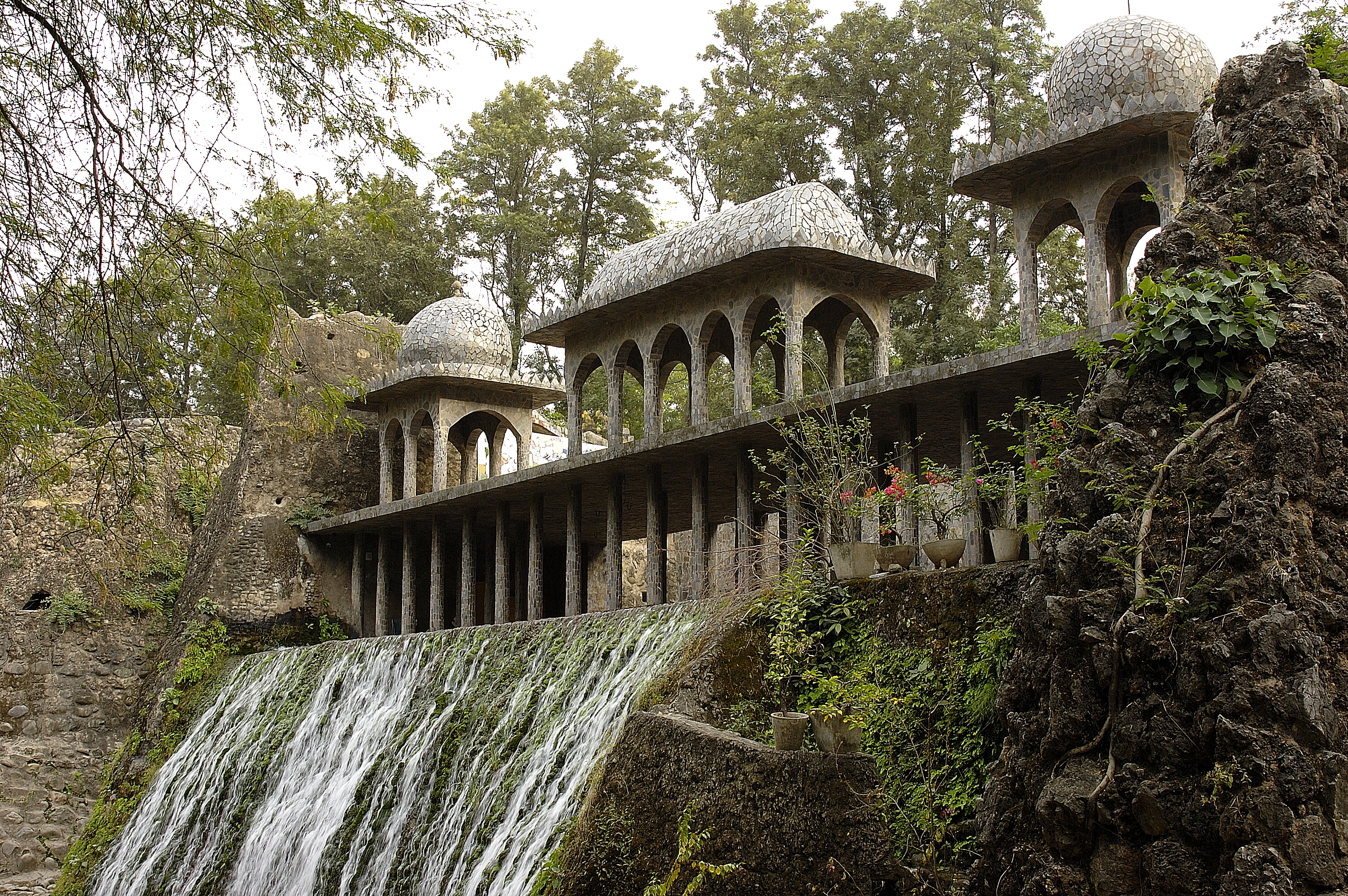 20071201_152804 ornamental_water_fall